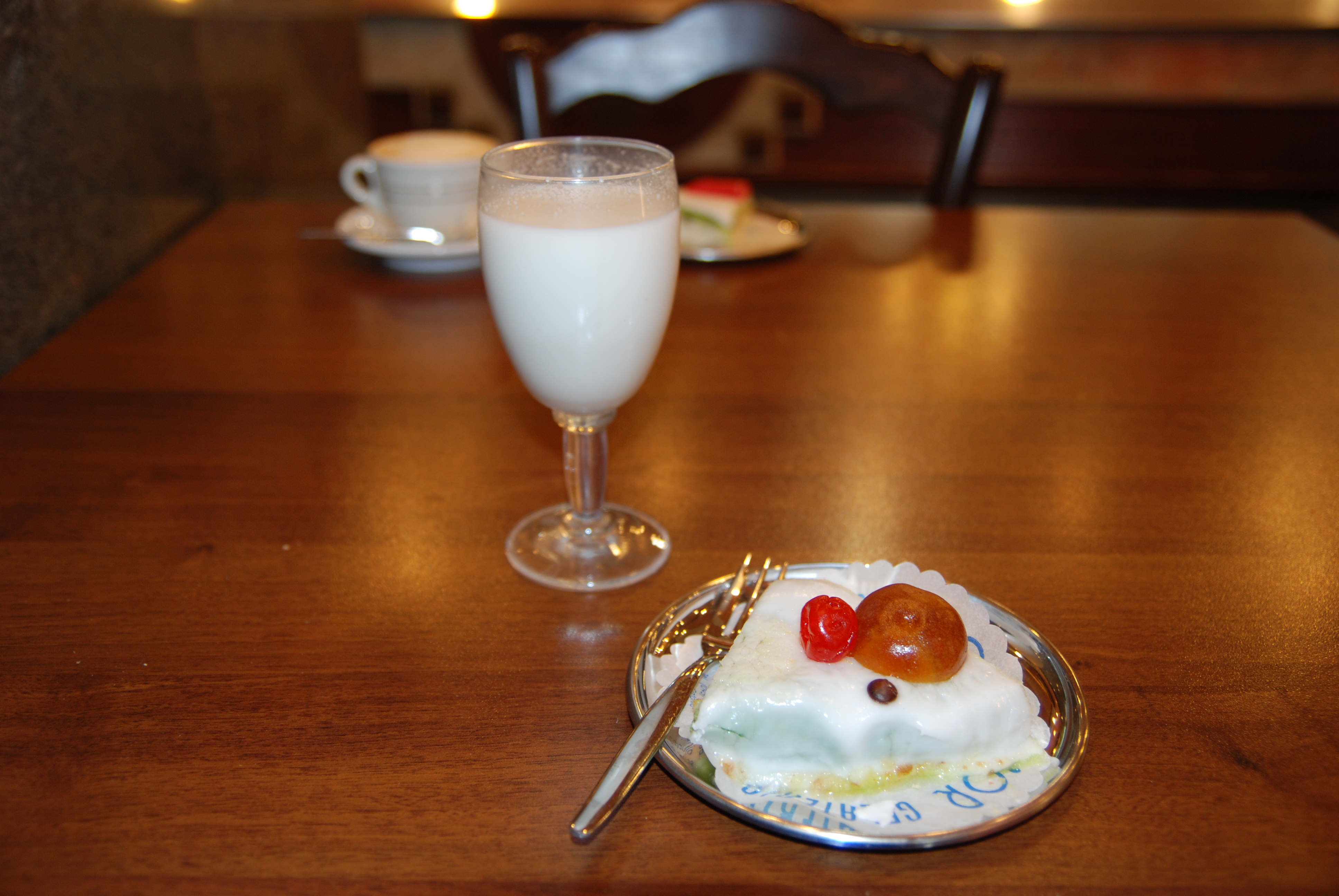 italian breakfast